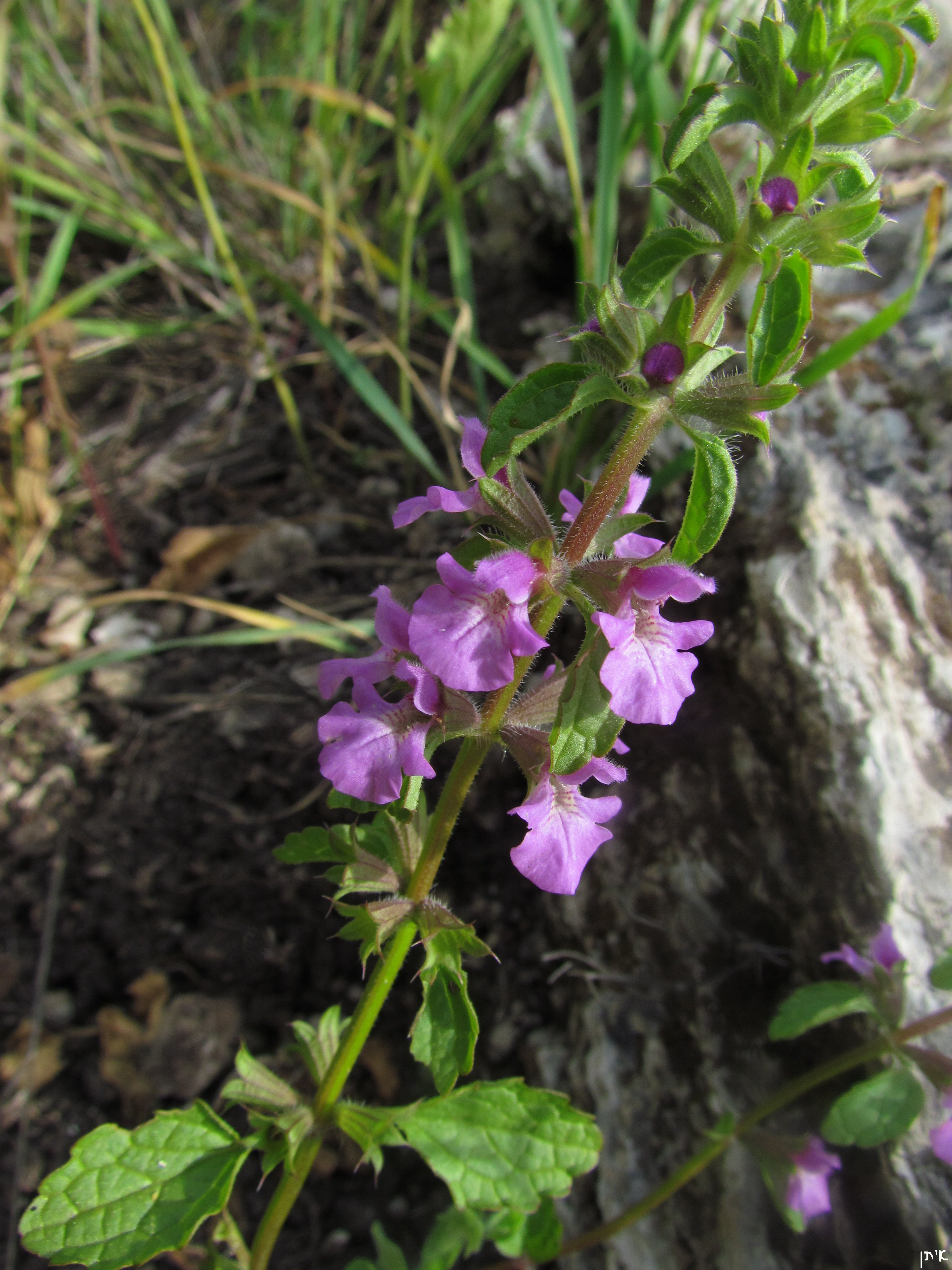 Stachys neurocalycina - Yoqneam